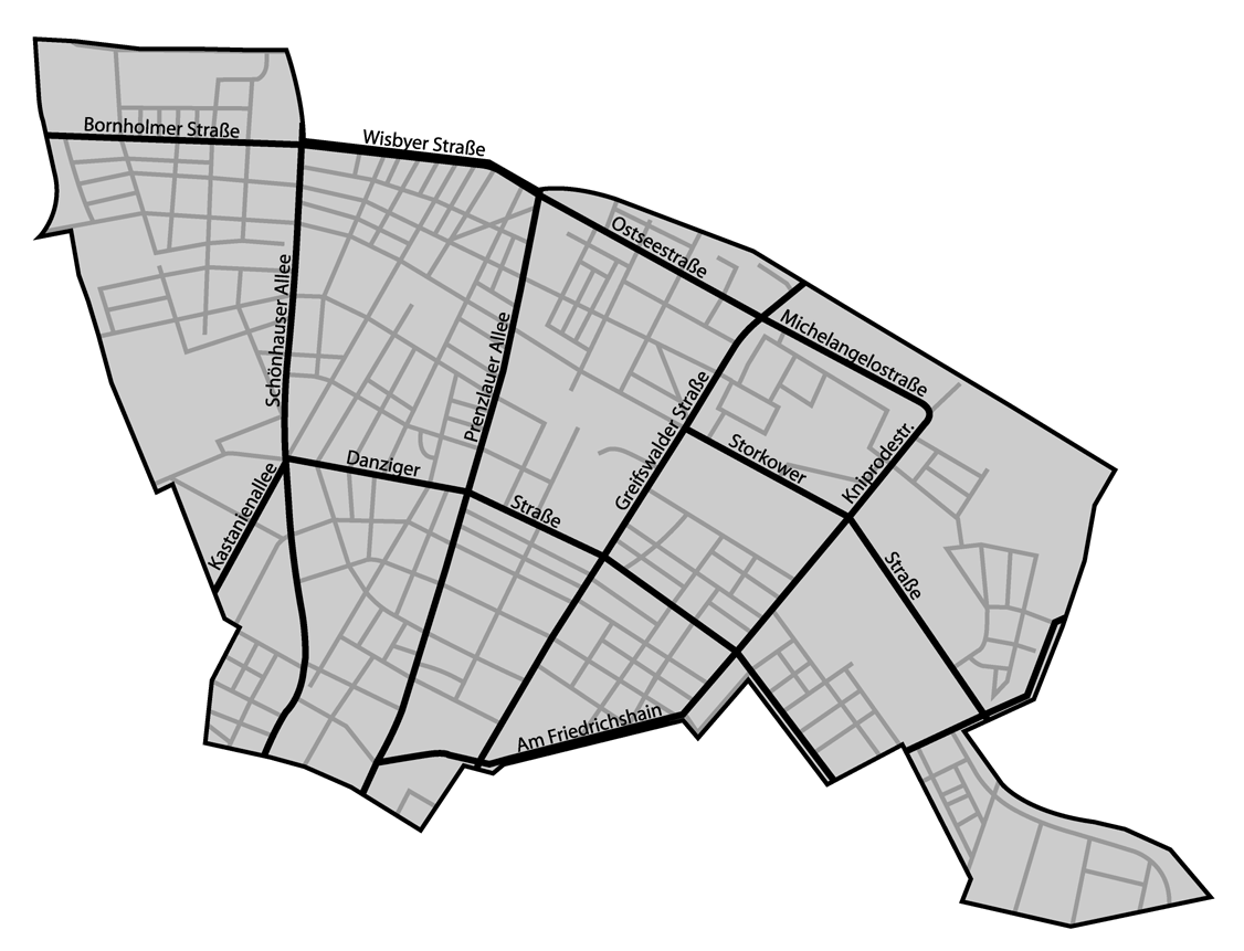 Streets in Prenzlauer Berg, Berlin